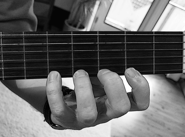 Classical Guitar Left Hand 1